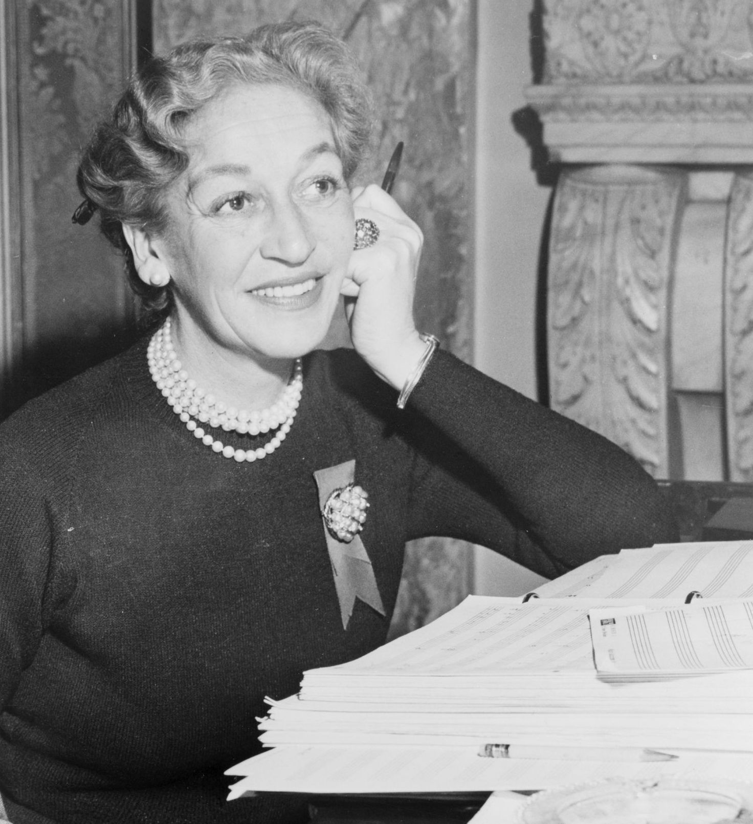 Dorothy Fields & Arthur Schwartz work on score of "A Tree Grows in Brooklyn" / World Telegram & Sun photo by Walter Albertin.